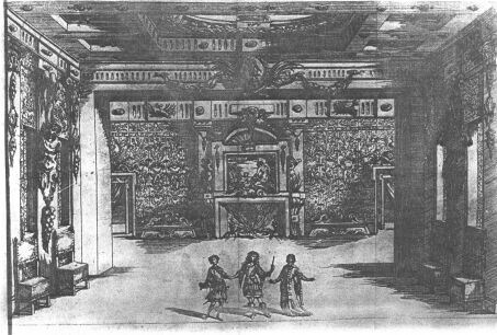 From the 1st edition of "Il Cromuele" by Girolamo Graziani (1671). Orinda, Edmondo and Anna in Whitehall.